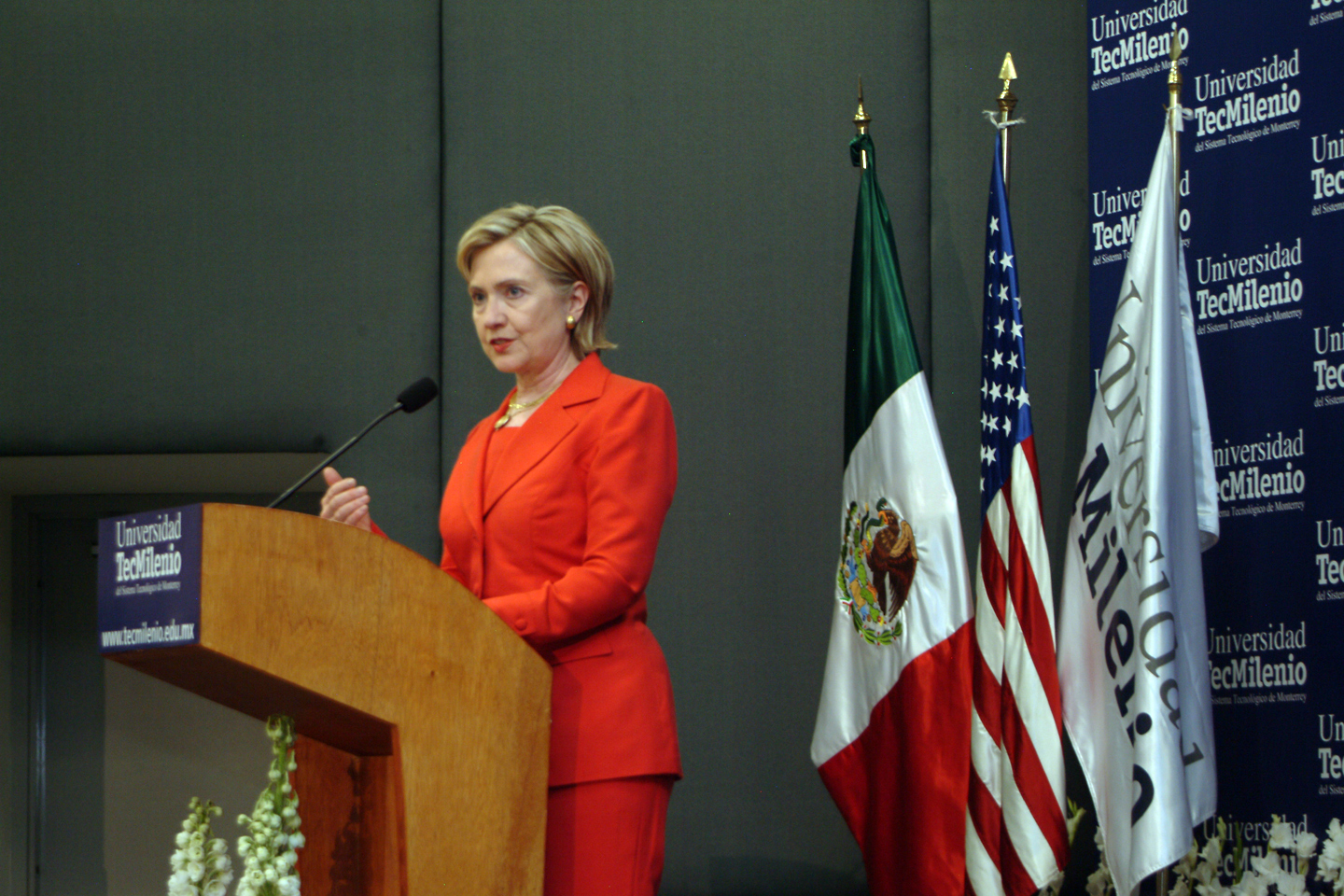 U.S. Secretary of State Hillary Rodham Clinton answers students' questions at Universidad TecMilenio, Campus Las Torres, in Monterrey, Nuevo León, Mexico.